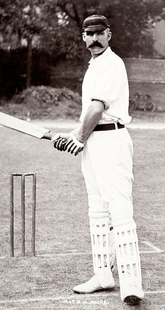 Hampshire cricketer Major Robert Poore, circa 1908.